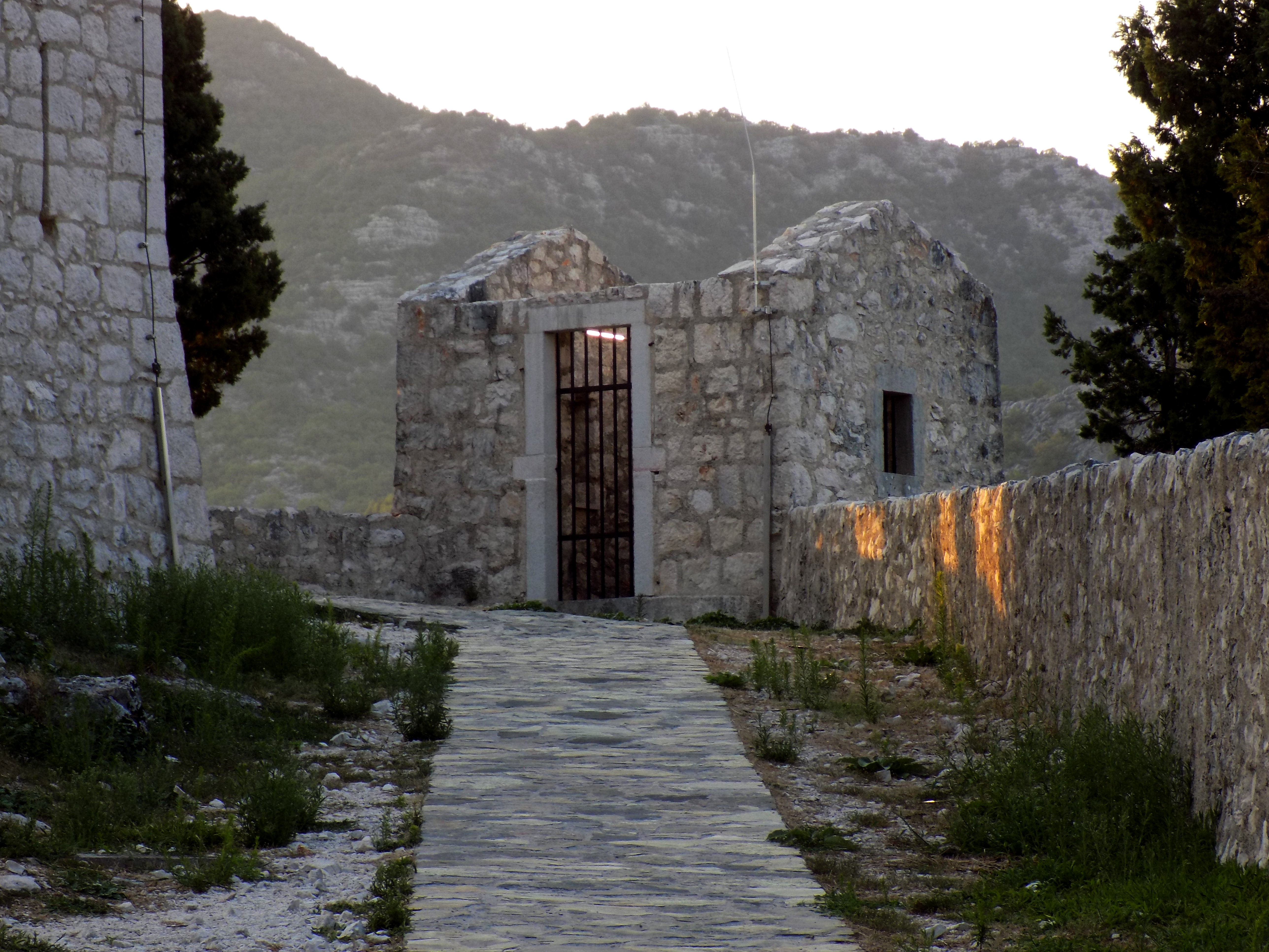 Fort Besac, Virpazar, Montenegro